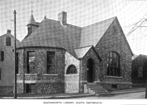 Public library, Massachusetts